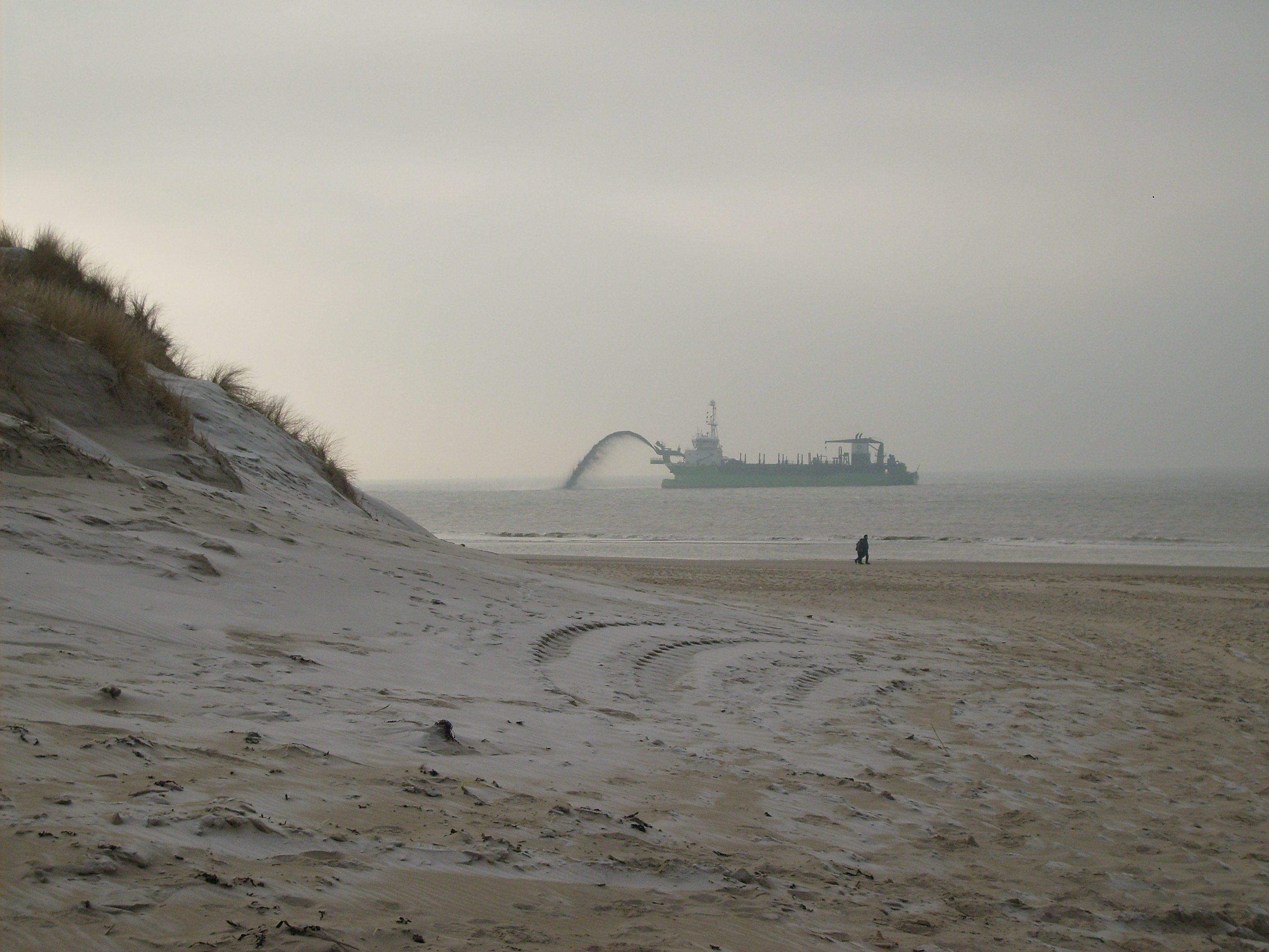 Sand suppletion on the Dutch coast. Sand is brought from a certain distance from the coast with this kind of ship. Then, it's added to the beach or dumped in the sea very close to the coastline in order to let nature do its work in bringing it to the coast.